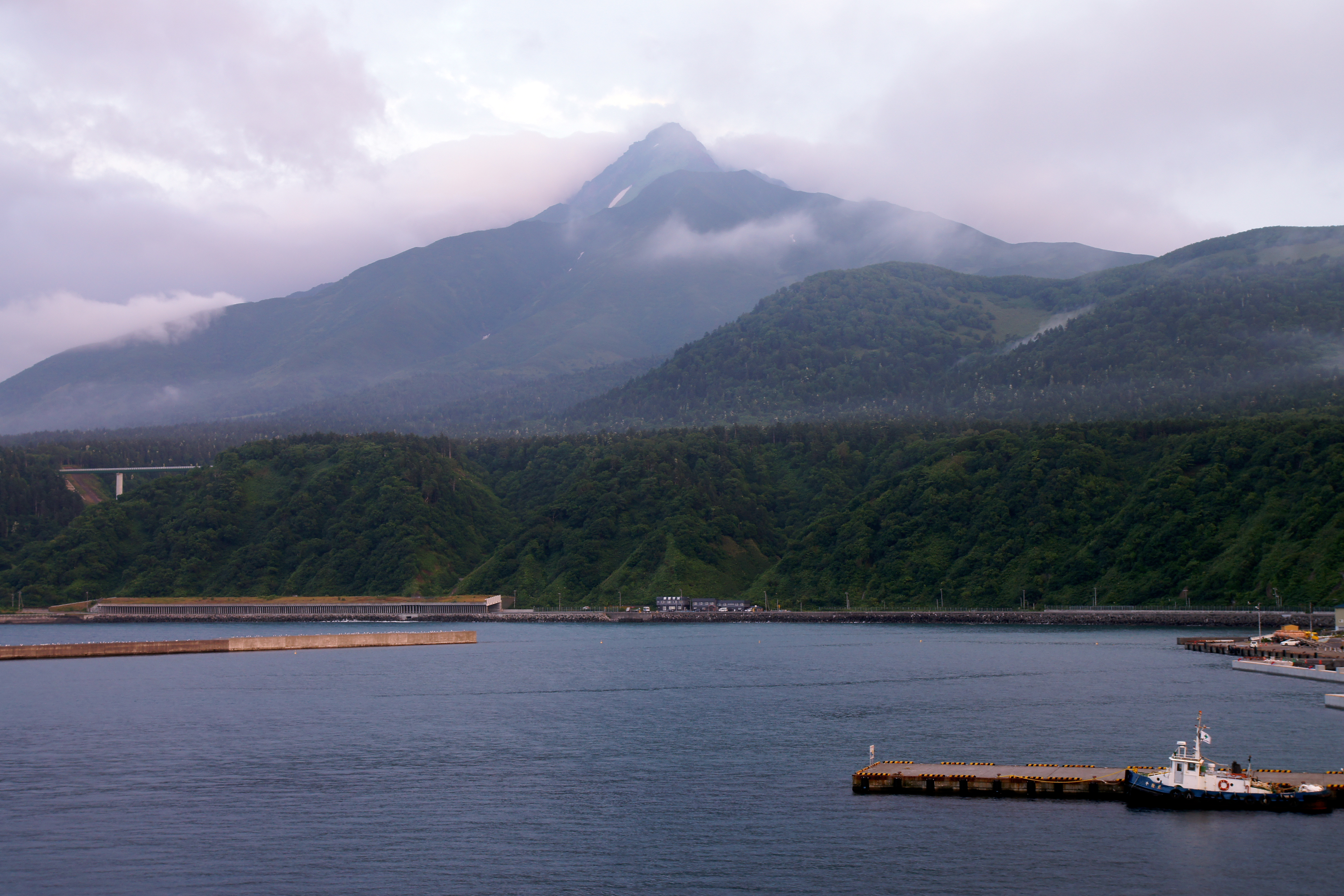 Mount Rishiri view from Oshidomari Port in Rishiri Island, Hokkaido, Japan.